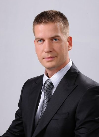 Zhivko Todorov